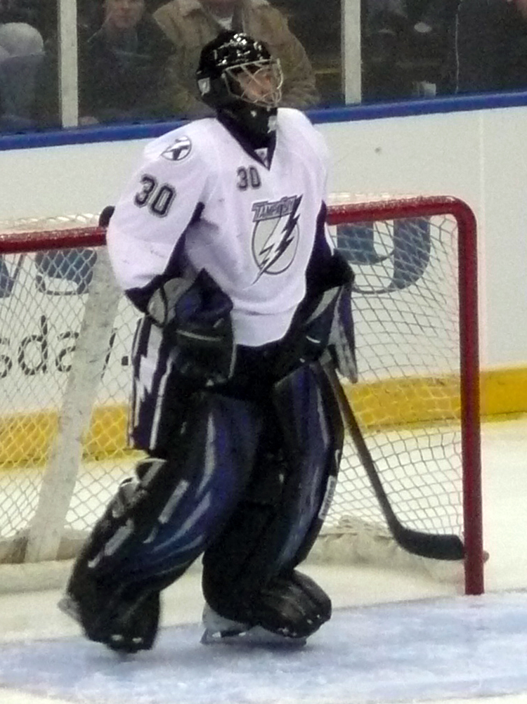 Mike McKenna, then of the Tampa Bay Lightning, during a game against the New York Islanders in Uniondale, NY on 4/4/2009.